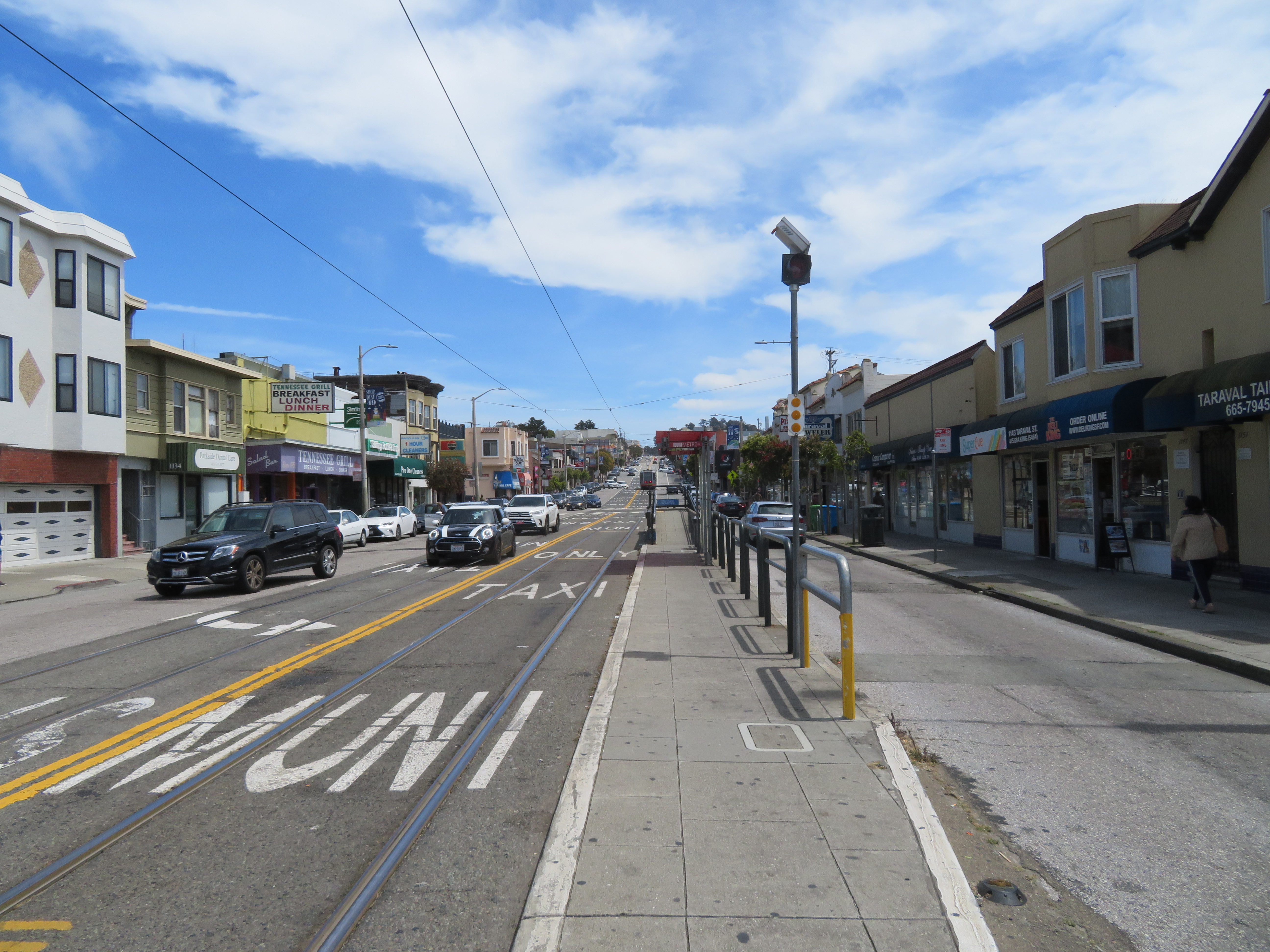 Inbound platform at Taraval and 22nd Avenue in May 2018